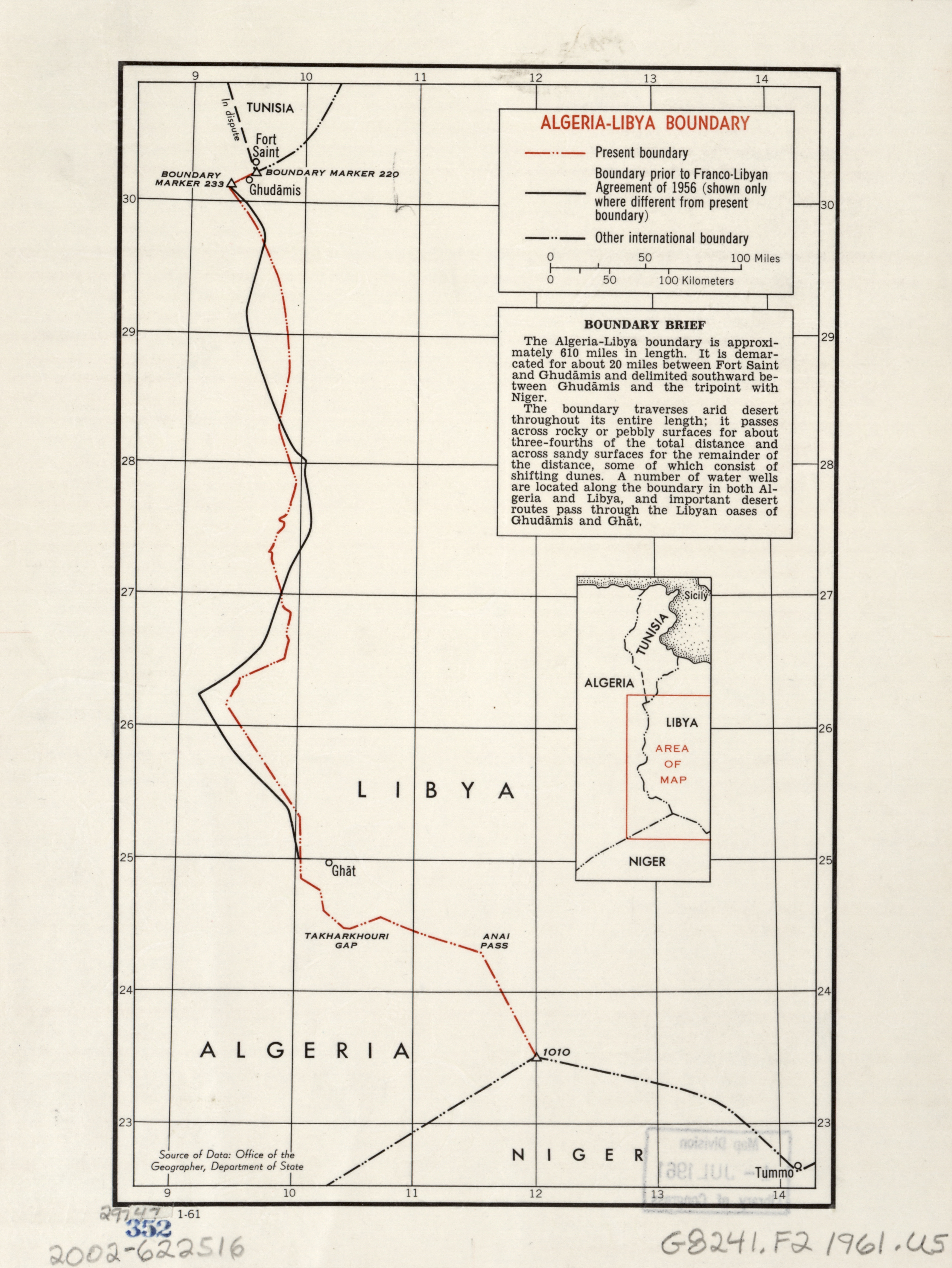 "29747 1-61." "Source of data: Office of the Geographer, Department of State." Includes note and key map. Scale [ca. 1:4,000,000] (E 90--E 140/N 310--N 230).